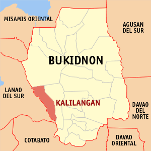 Map of the Bukidnon showing the location of Kalilangan